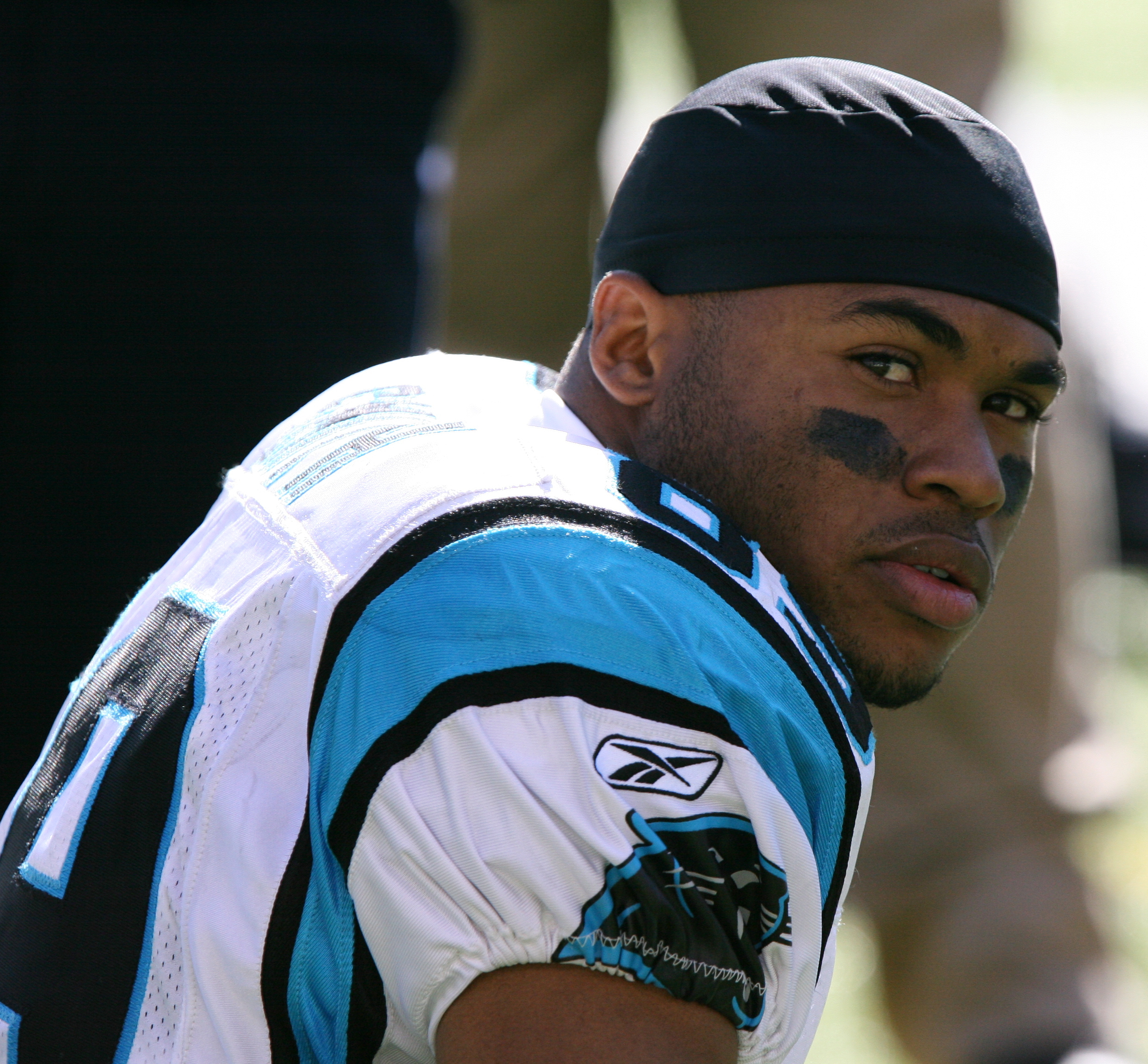 Carolina Panthers wide receiver Steve Smith sits on the bench during a 2006 game.